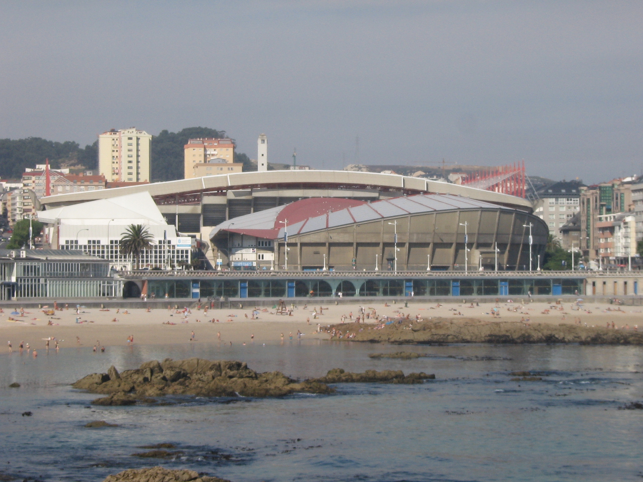 Estadio de Riazor in A Coruna, Spain